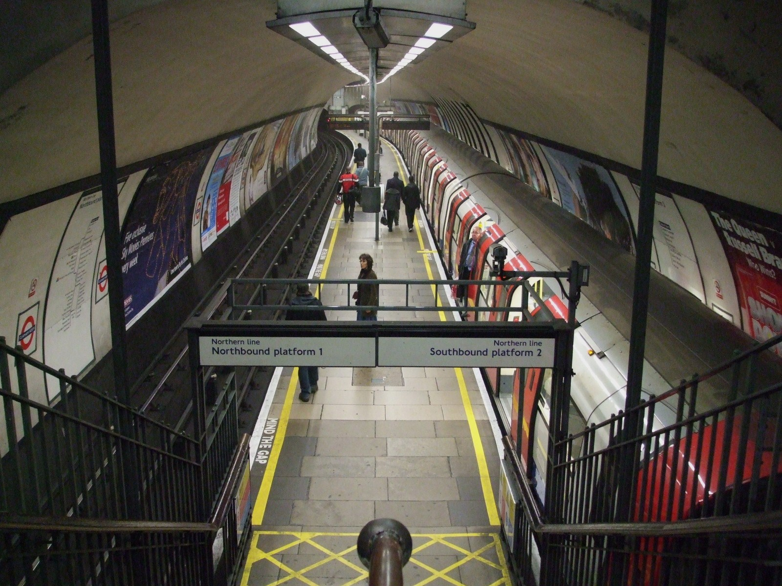 Clapham North tube station island platforms viewed from staircase at southern end